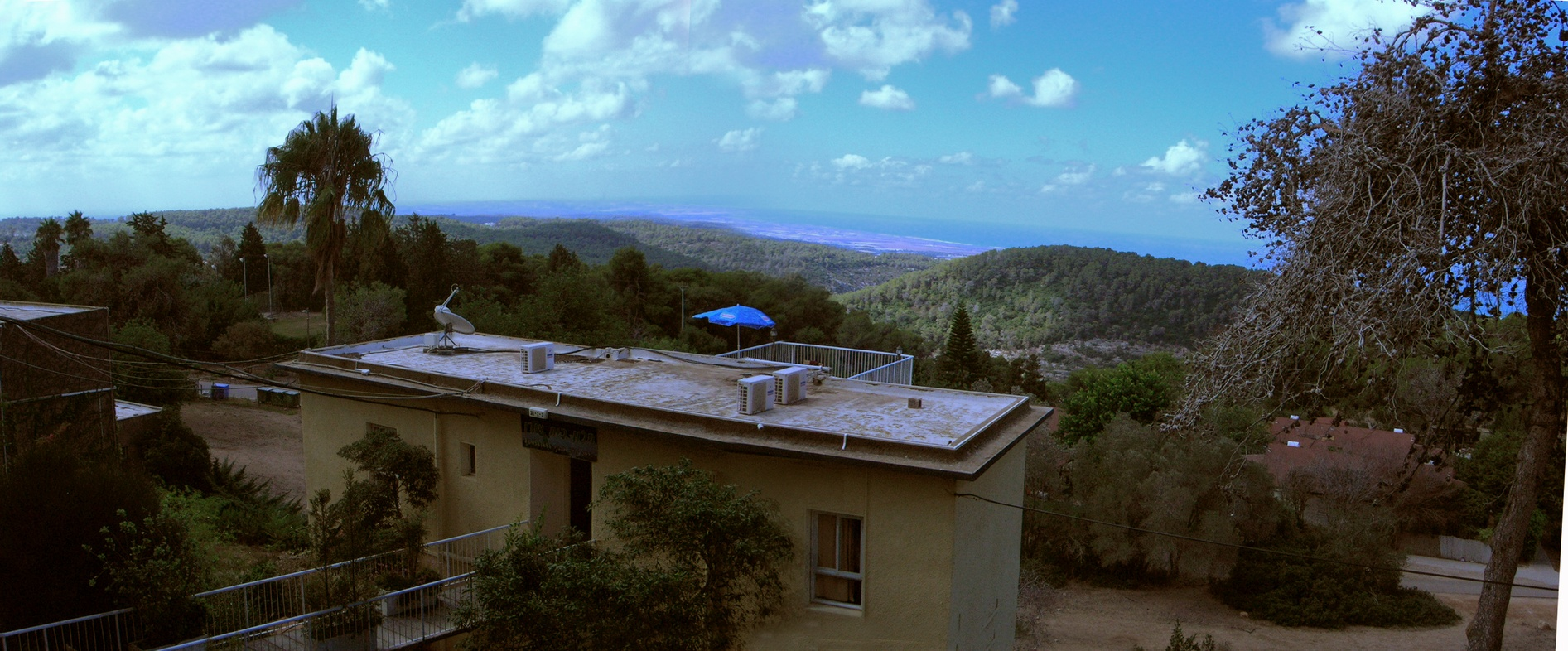 View of Carmel forest from Bet Oren, Israel